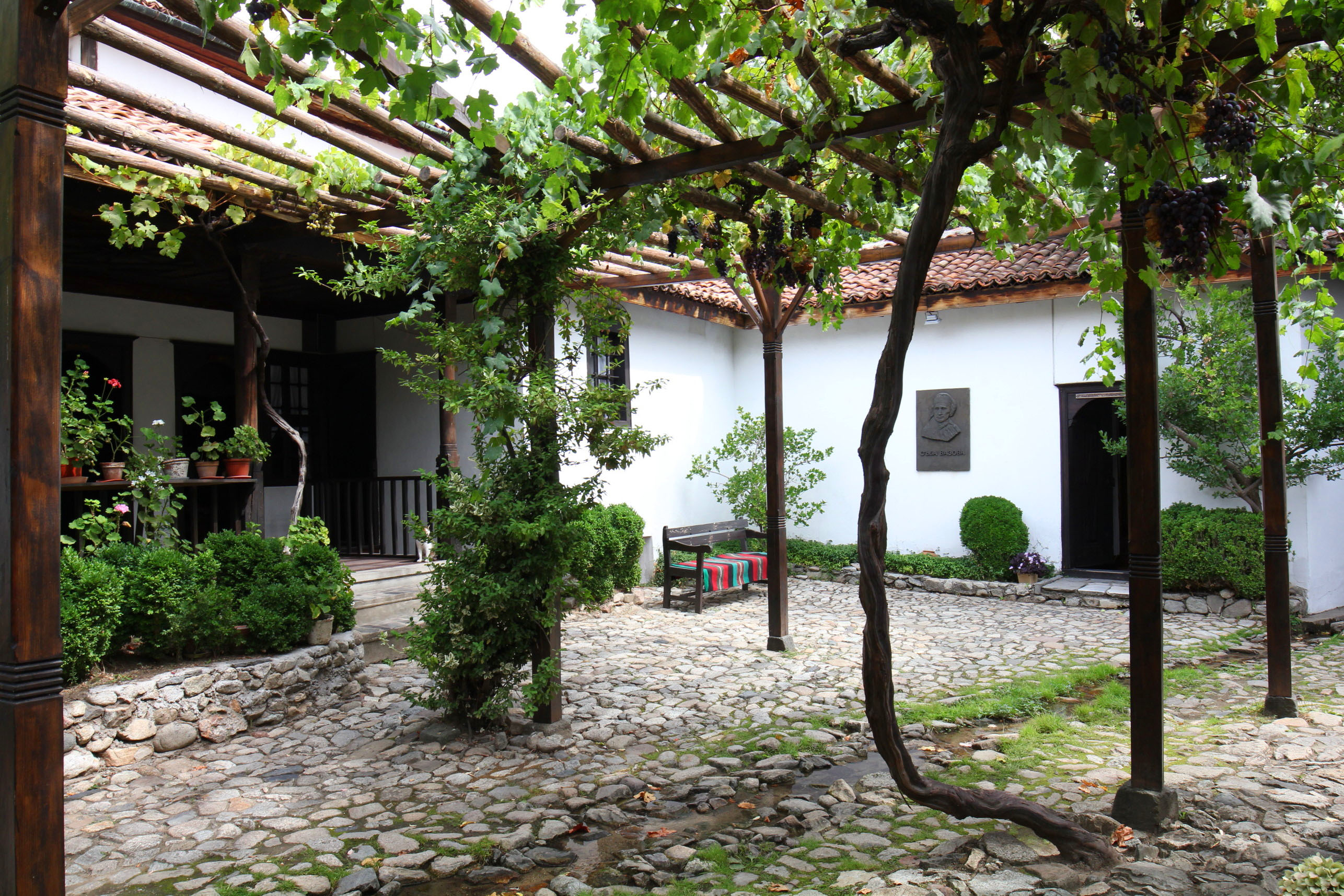 The house-museum of Ivan Vazov in town of Sopot, Bulgaria